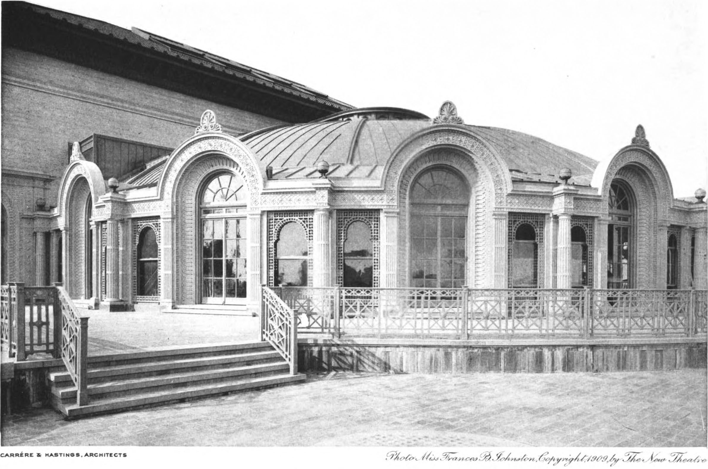 Rooftop Garden Pavilion of the New Theatre (later: Century Theatre) on Central Park West in New York City.